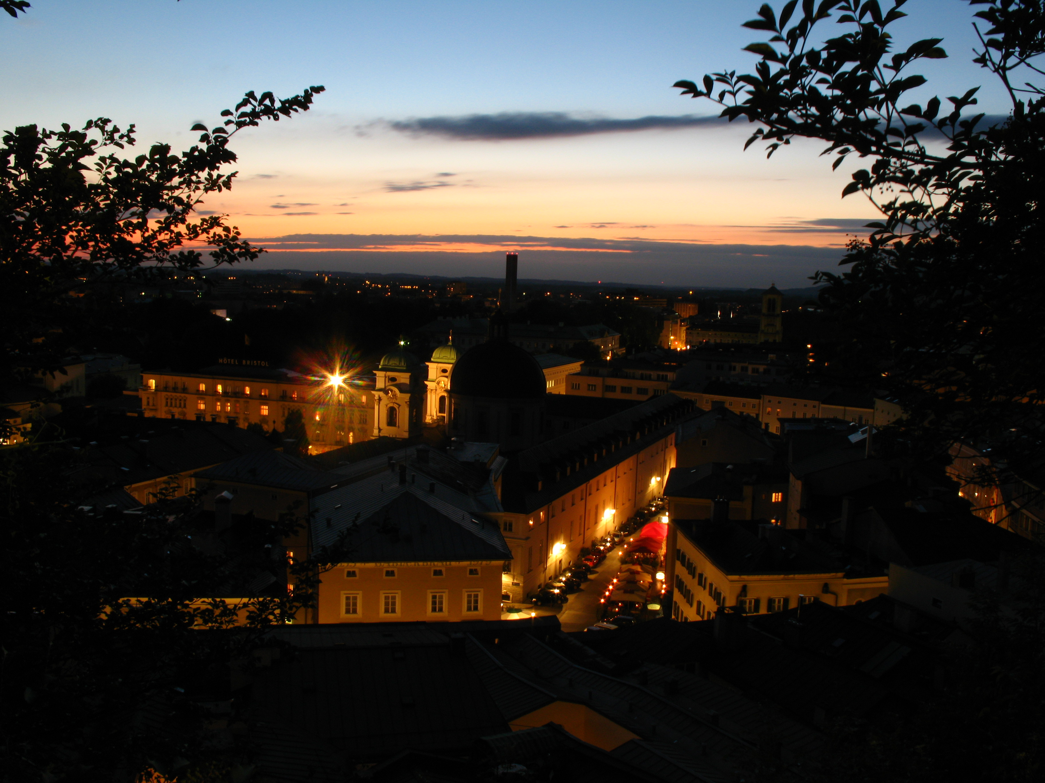 View from Stefan-Zweig-Weg, Kapuzinerberg, Salzburg, Austria